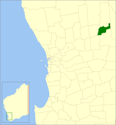 Description=Location of the Local Government Area in Western Australia